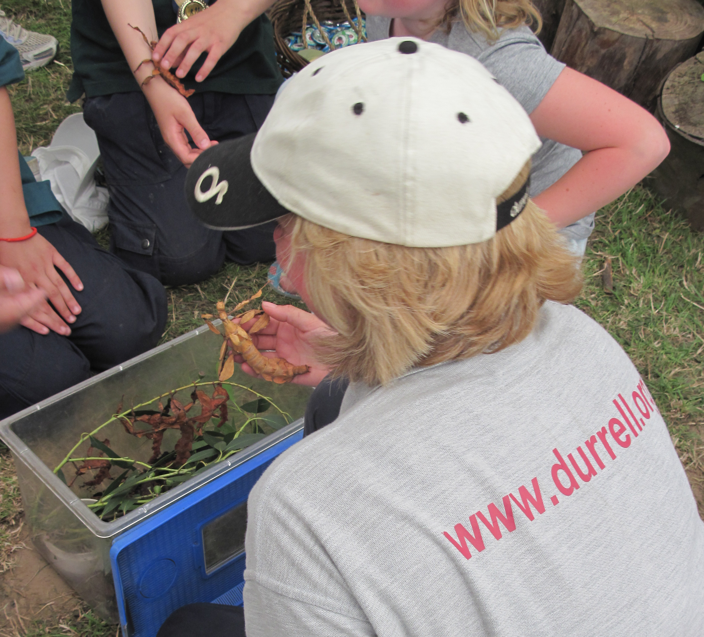 West Show, Jersey, 10-11 July 2010